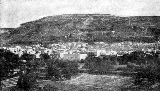 Mount Gerizim, photo taken c. 1900 from Nablus. This image appears in the public domain 1901-1906 Jewish Encyclopedia. Please feel free to update it like any other article. (The Jewish Encyclopedia was an encyclopedia originally published between 1901 and 1906 by Funk and Wagnalls. It contained over 15,000 articles in 12 volumes on the history and then-current state of Judaism and the Jews as of 1901. It is now a public domain resource.)